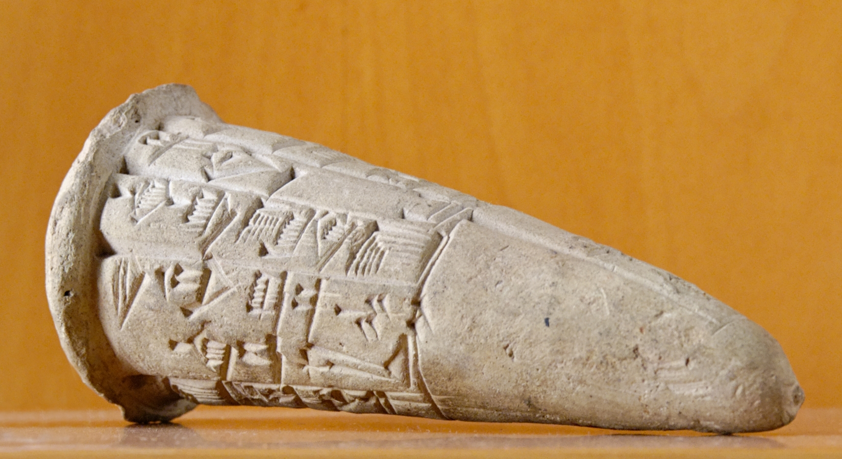 Foundation nail dedicated by Gudea of Lagash to Ningirsu for the building of the E-ninnu. Terracotta, ca. 2120 BC. May come from Tello, ancient Girsu. "For Ningirsu, the powerful hero of Enlil, his king, Gudea, prince of Lagash, accomplished what had to be; his temple of E-innu, the shining thunder-bird, he built and restaured."